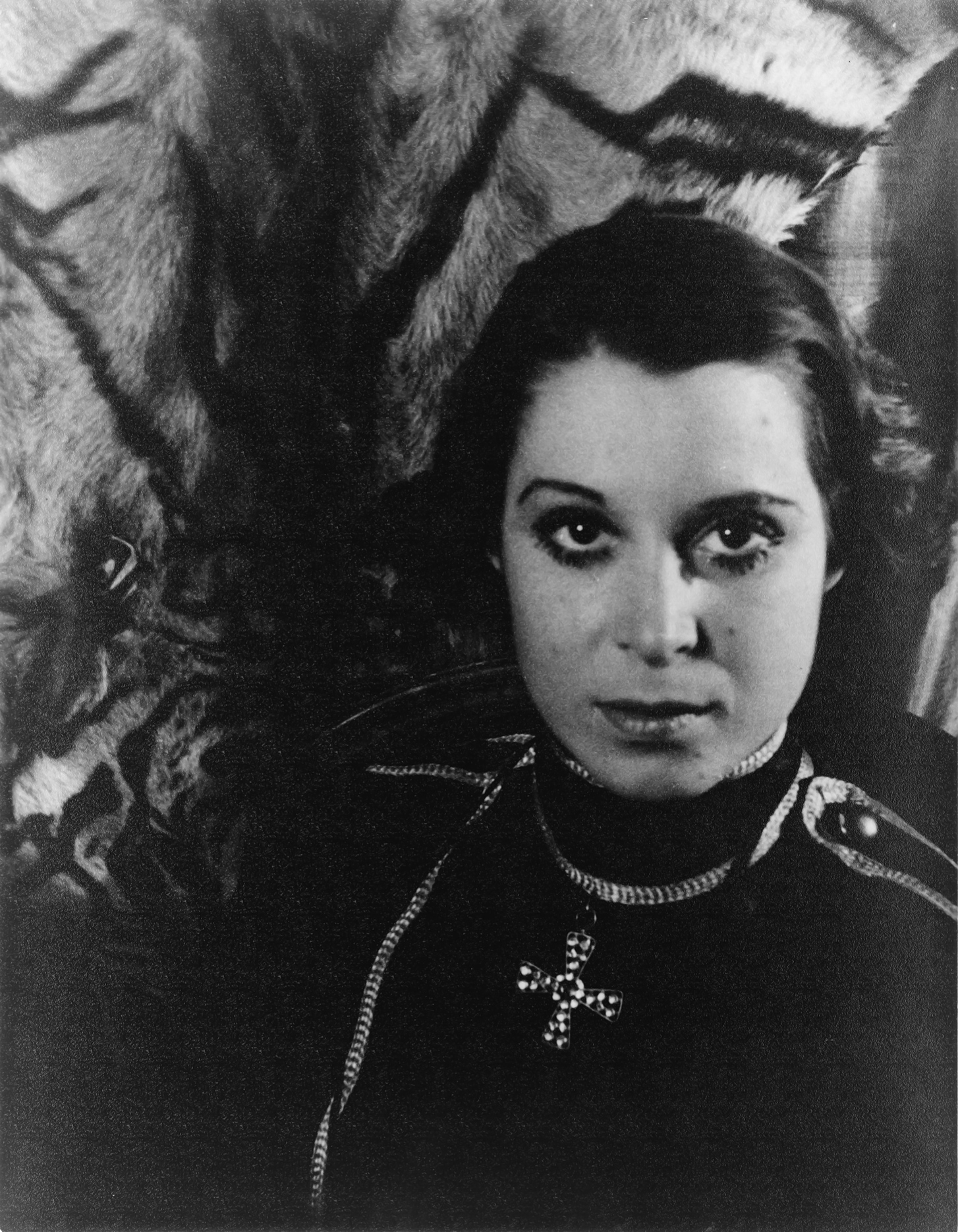 Kitty Carlisle in Die Fledermaus, photographed by Carl Van Vechten, November 1, 1933